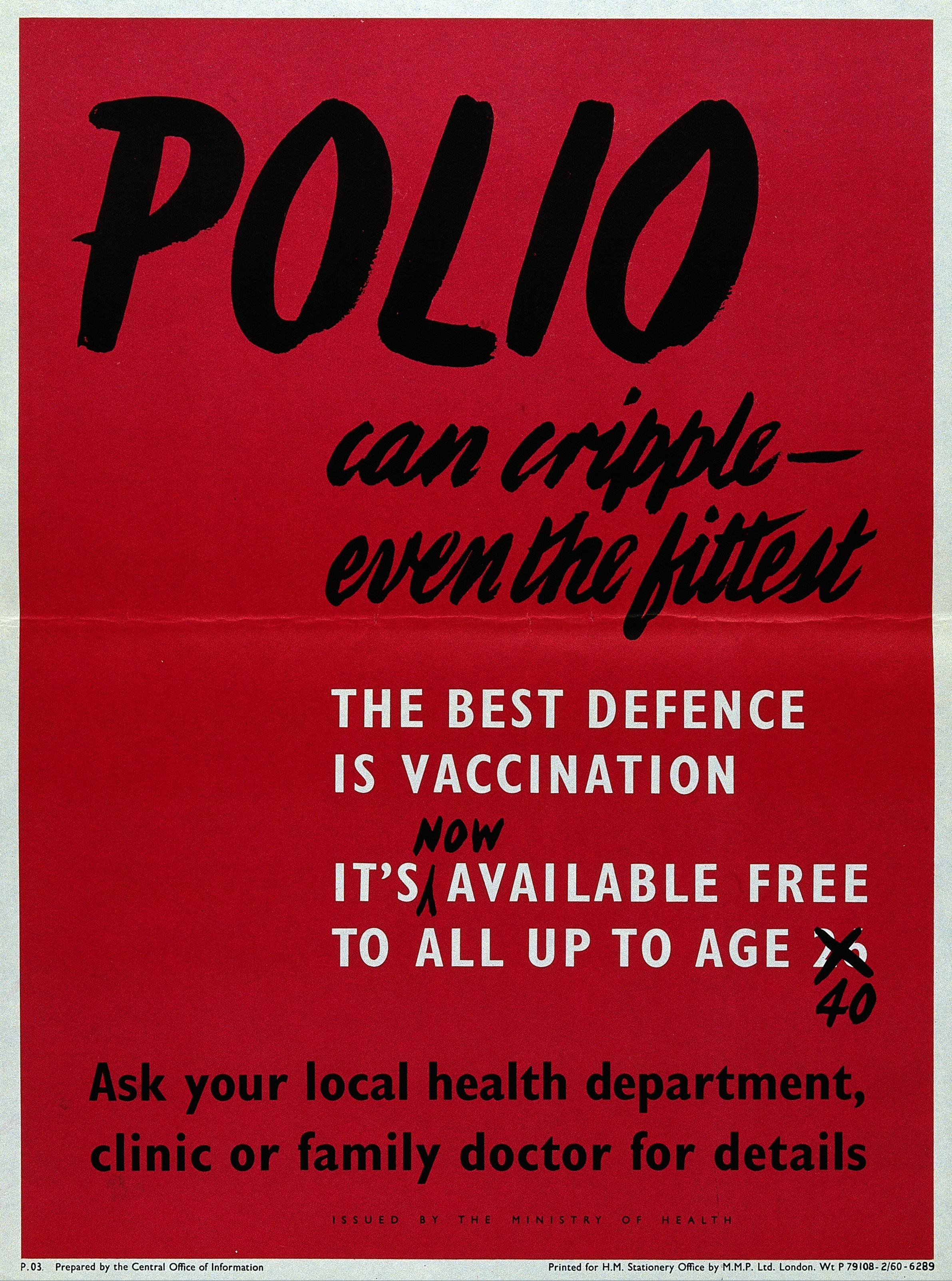 Poster issued by the British Ministry of Health for the vaccination against Polio. Colour lithograph, ca. 1940. 1940 Published: [s.n.],[S.l.] : ca. 1940.